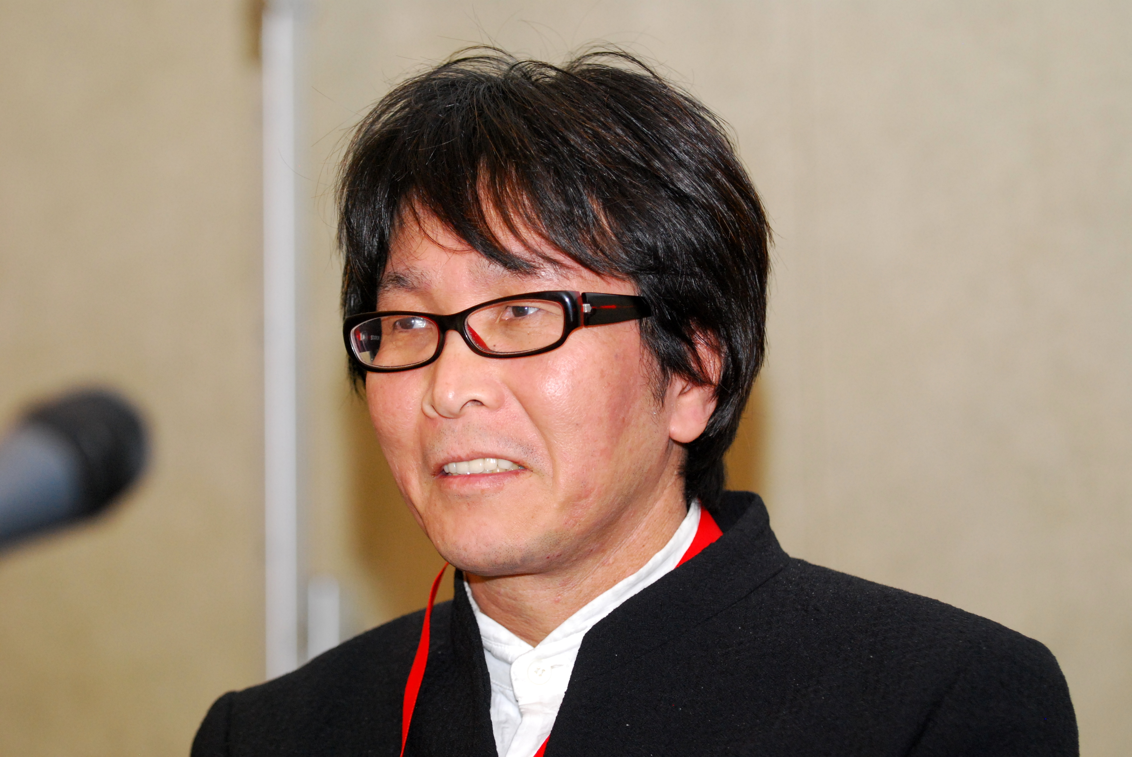 Yōichi Takahashi at Lucca Comics & Games 2011.